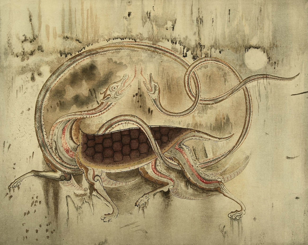 Black_Tortoise(the mural of the Goguryeo Tomb)